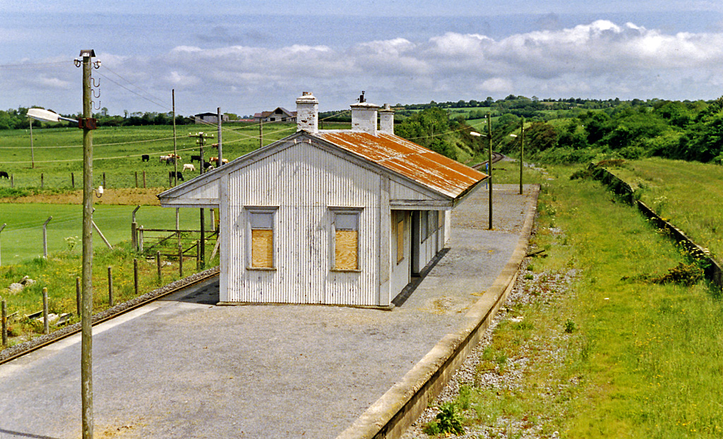 Campile Station, Near to Campile and Grange, Wexford, Ireland. View eastward, towards Rosslare; ex-Great Southern & Western, Limerick - Waterford Rosslare line, closed very recently (18/9/10); the line had been singled before 1993. (The village had the distinction of having been bombed by the German Luftwaffe on 26/8/40).